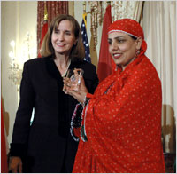 Paula Dobriansky, Under Secretary of State for Democracy and Global Affairs with Mary Akrami of Afghanistan March 7 2007 in Washington.jpg 2007 International Women of Courage Award